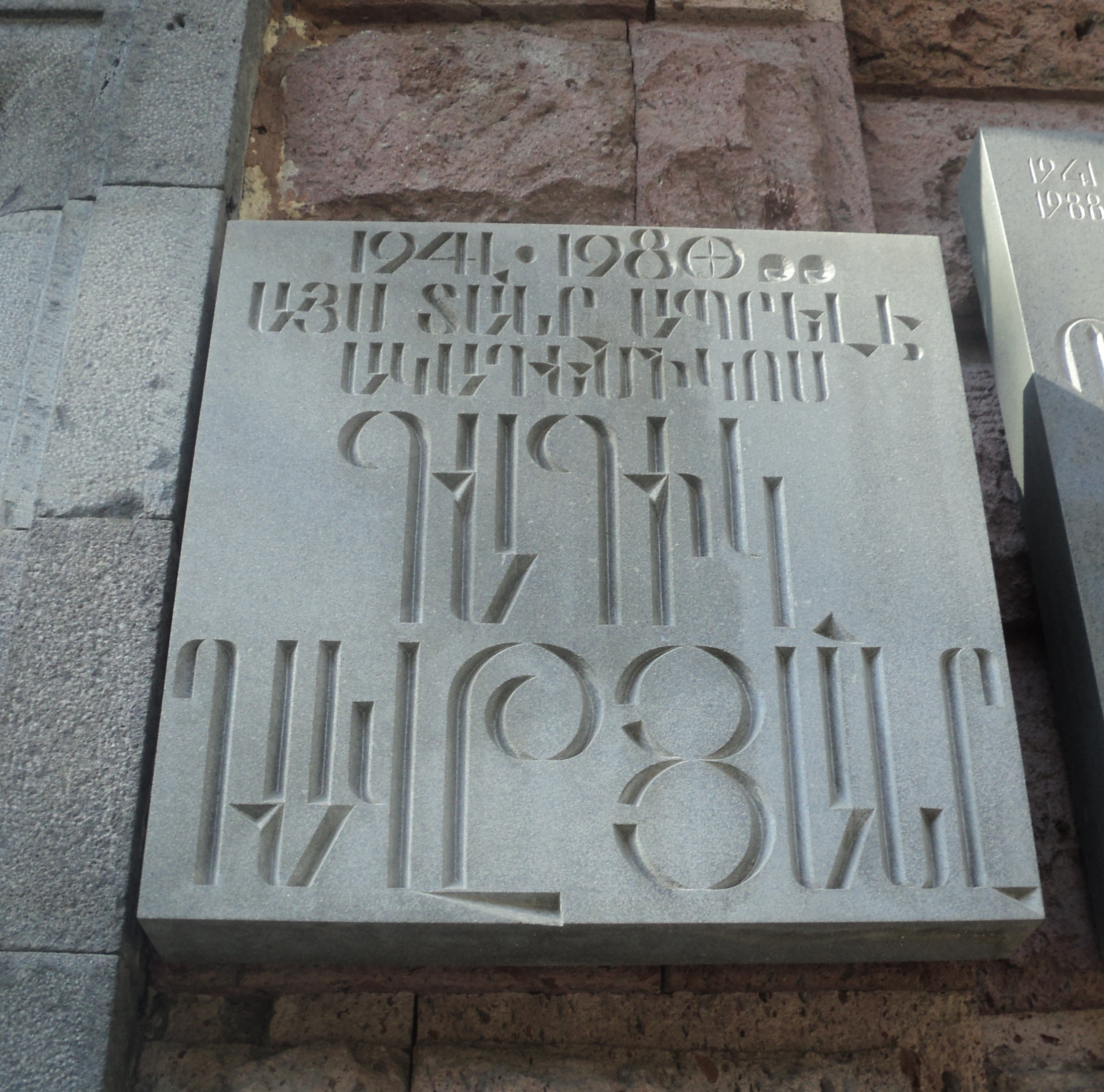 Gagik Davtyan's plaque in Yerevan on Mashtots avenue